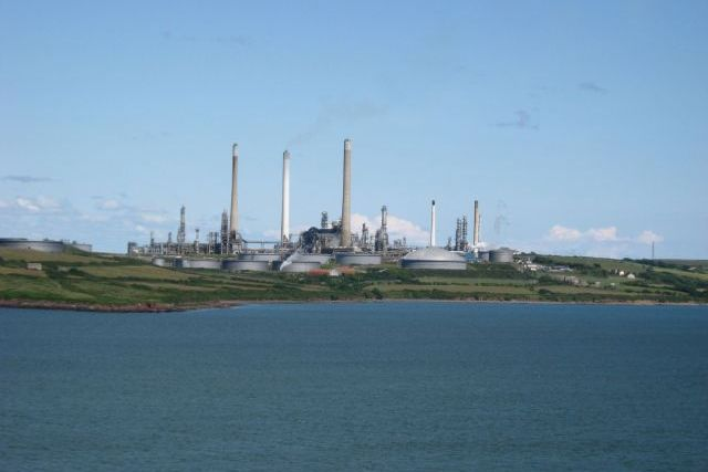 Chevron Pembroke oil refinery at Rhoscrowther, seen from near Angle Point